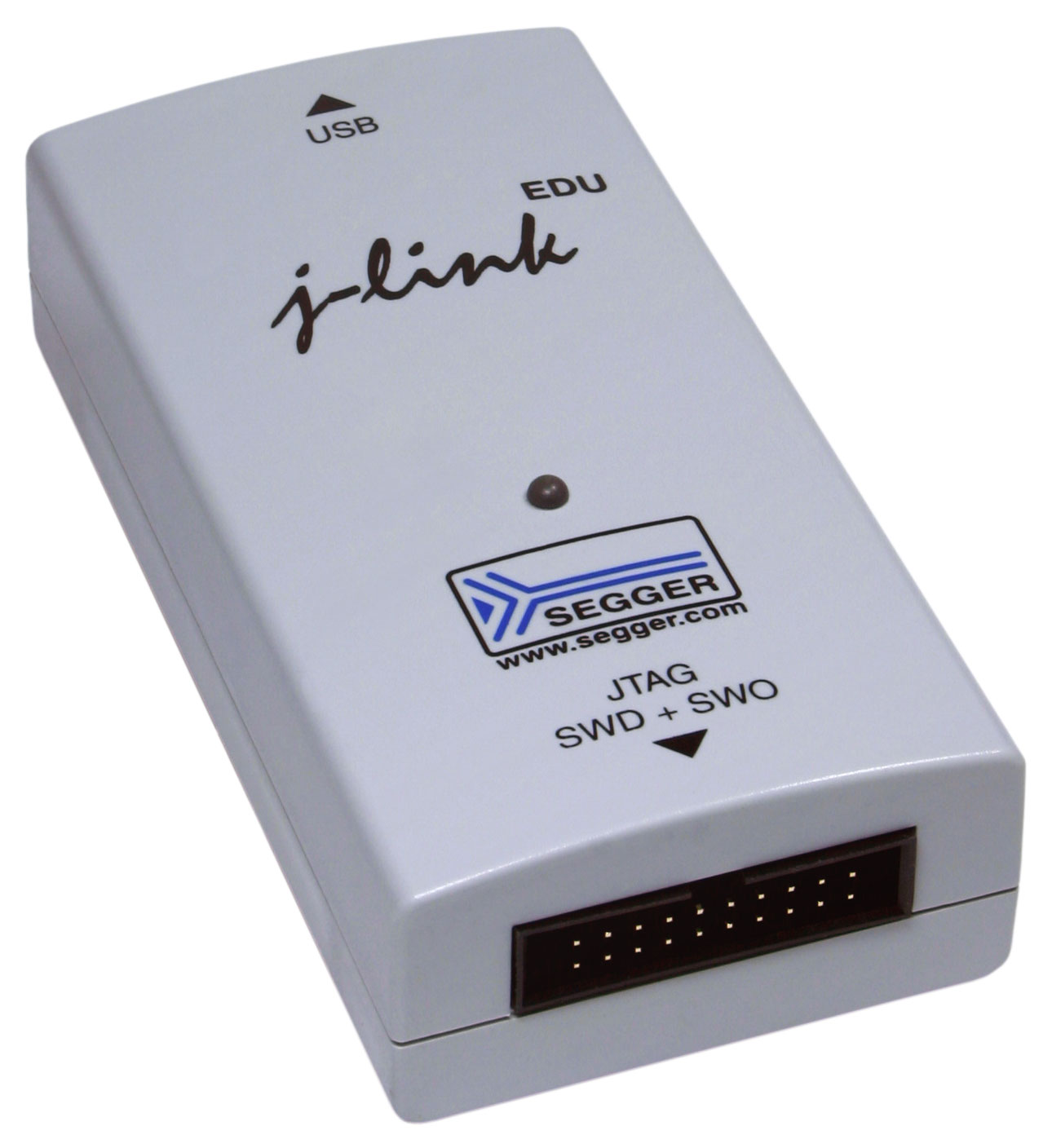 Segger J-Link EDU. JTAG/SWD debug probe for ARM microcontrollers with USB interface to host. (website)